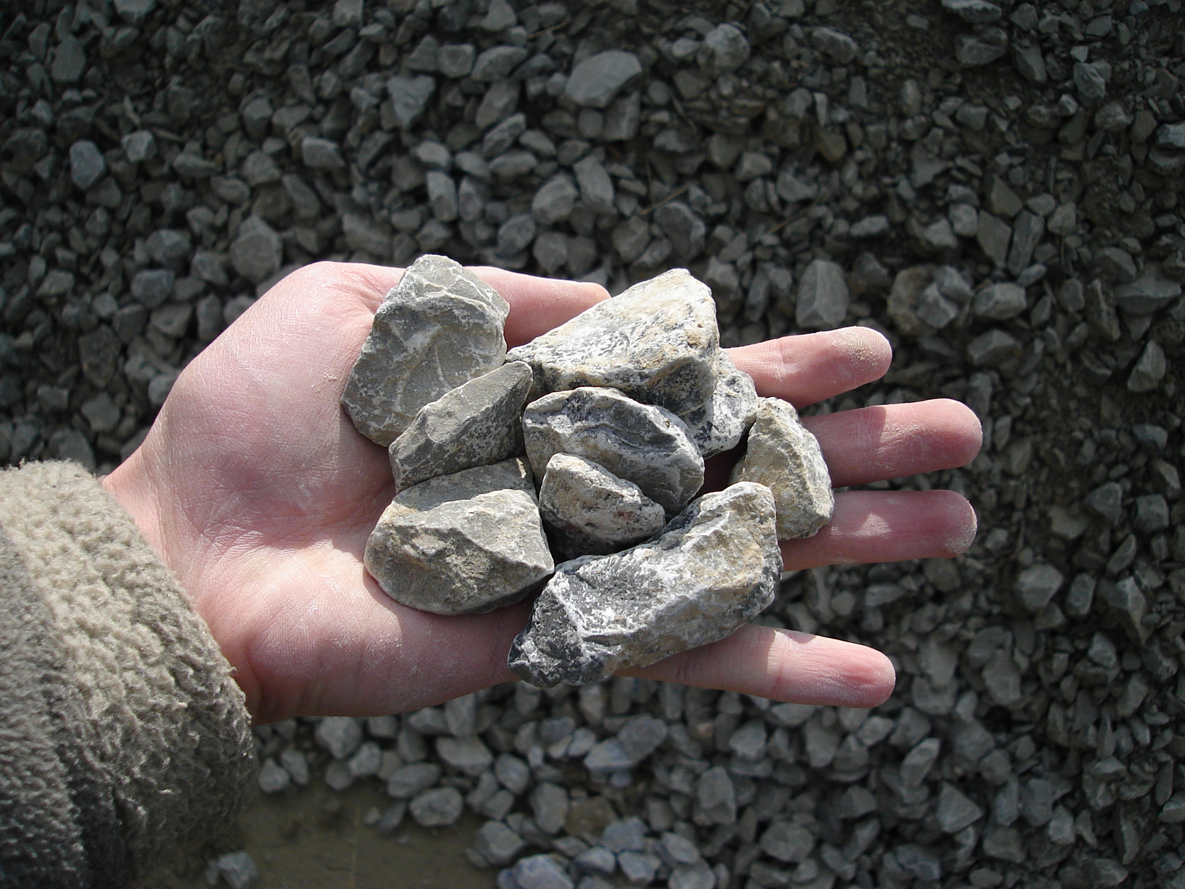 Limestone construction aggregate from Alegia, Basque Country.